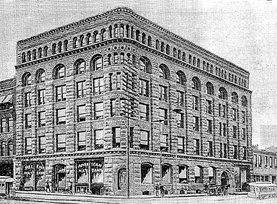 1891 image of Power Building, now known as the Power Block, in Helena, Montana, U.S. Image credited to A. W. Lyman